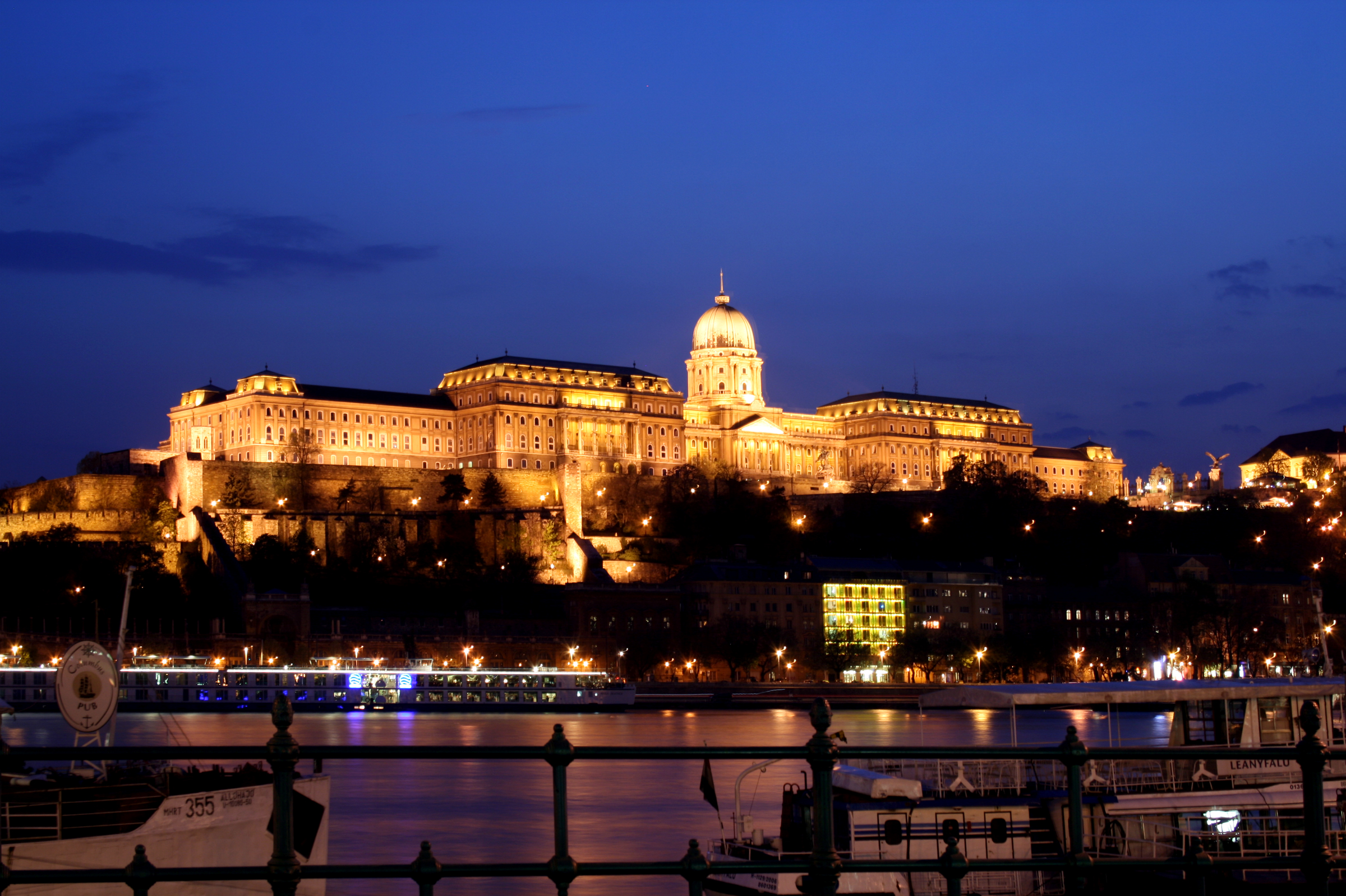 Night view on Buda Castle over Danube river, Budapest Hungary